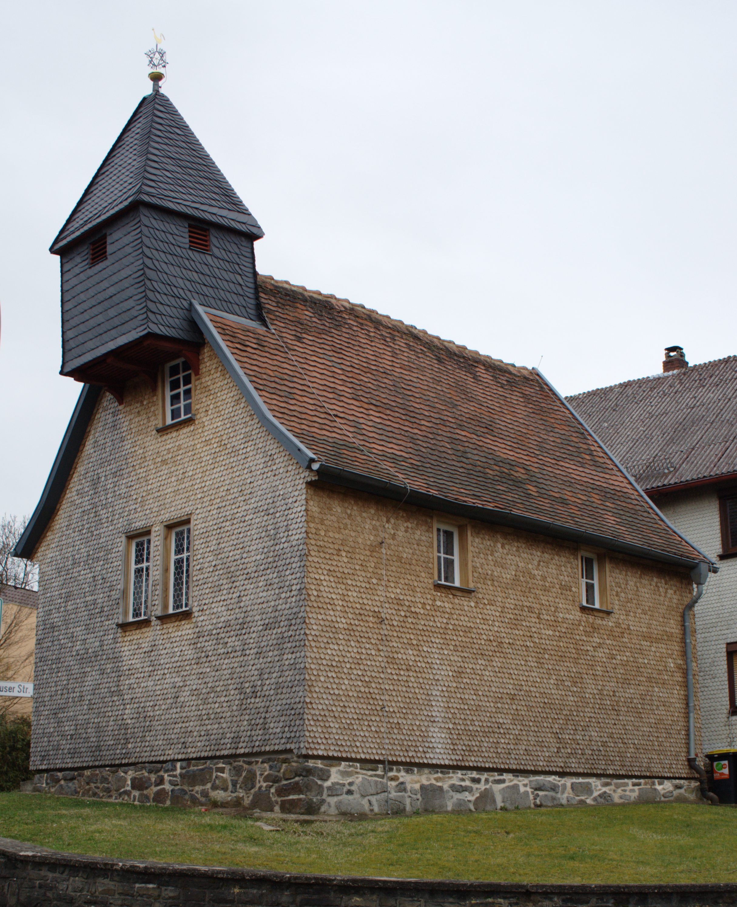 Protestant church in Ulrichstein, Zum Petersberg 1, Hesse, Germany